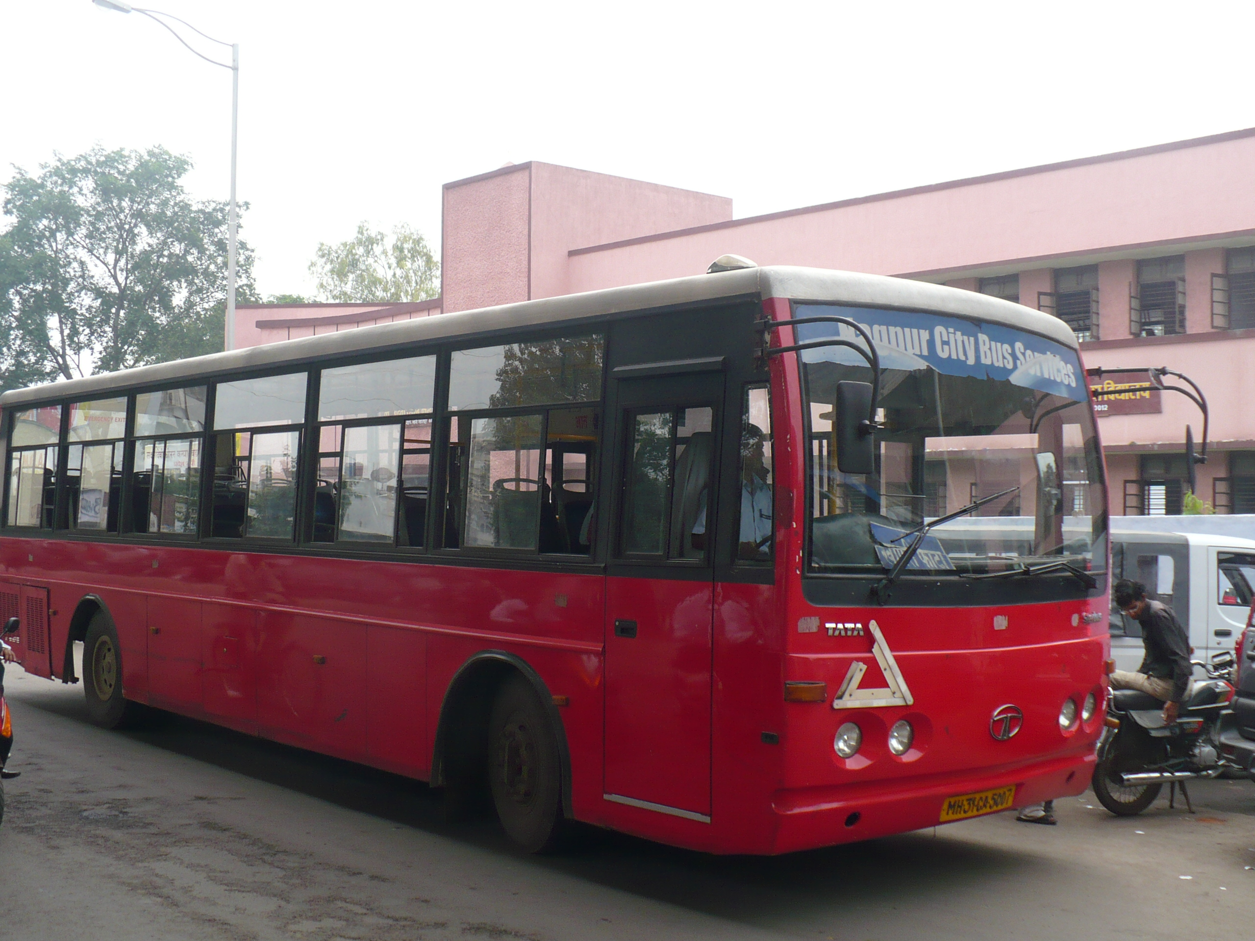 Photo by Nikhil Kulkarni